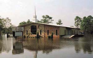 Pascagoula, MS, 10/1/1998 -- Project Impact principles at work. Damage-reduction measures saved this Pascagoula, MS church from flood damage during Hurricane Georges.